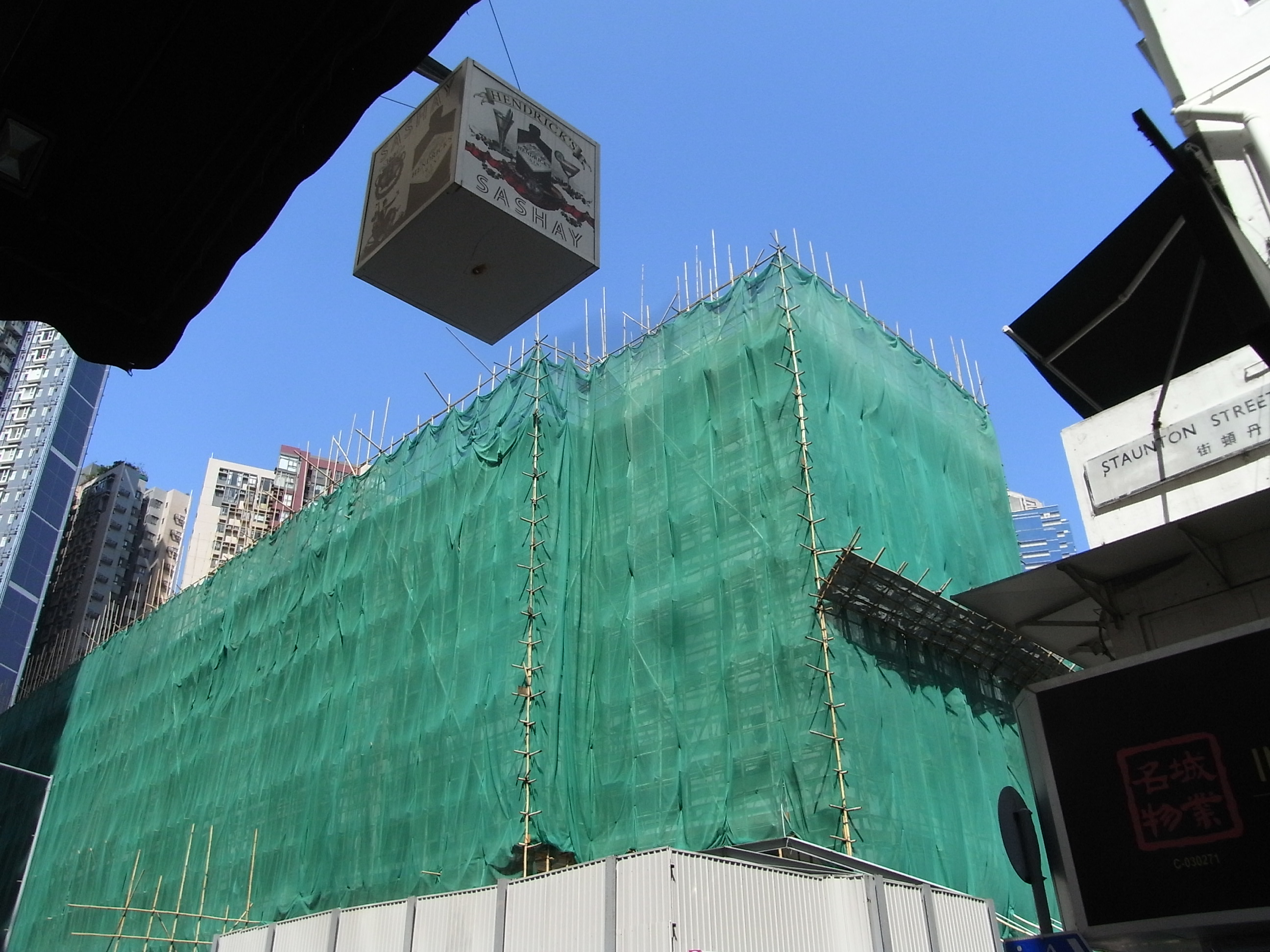 Staunton Street, Central Soho, Hong Kong